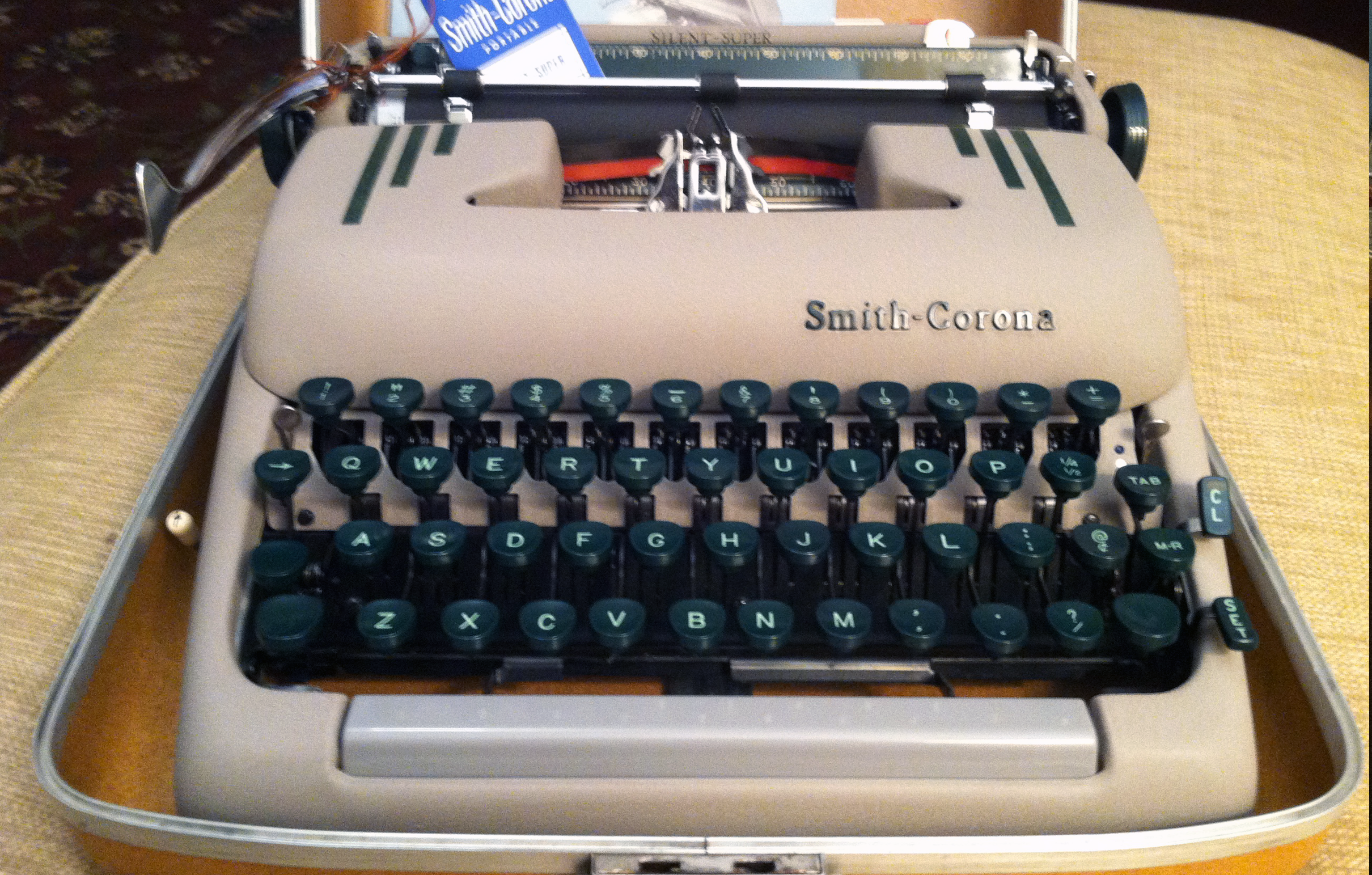 The Silent-Super was Smith Corona's top-of-the-line portable from 1953 to 1959. This specimen (S/N: 5T 573089X) dates from 1958.